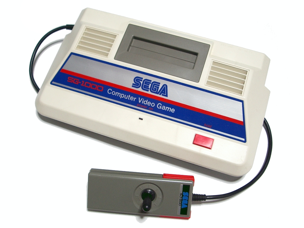 Sega SG-1000